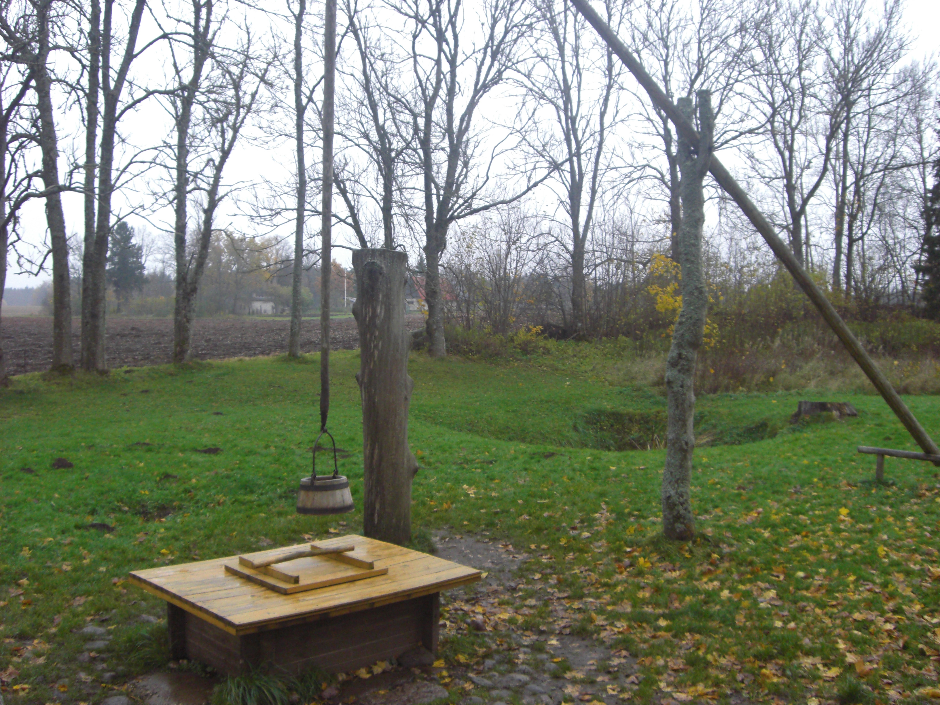 Kose Parish, Harju County, Estonia